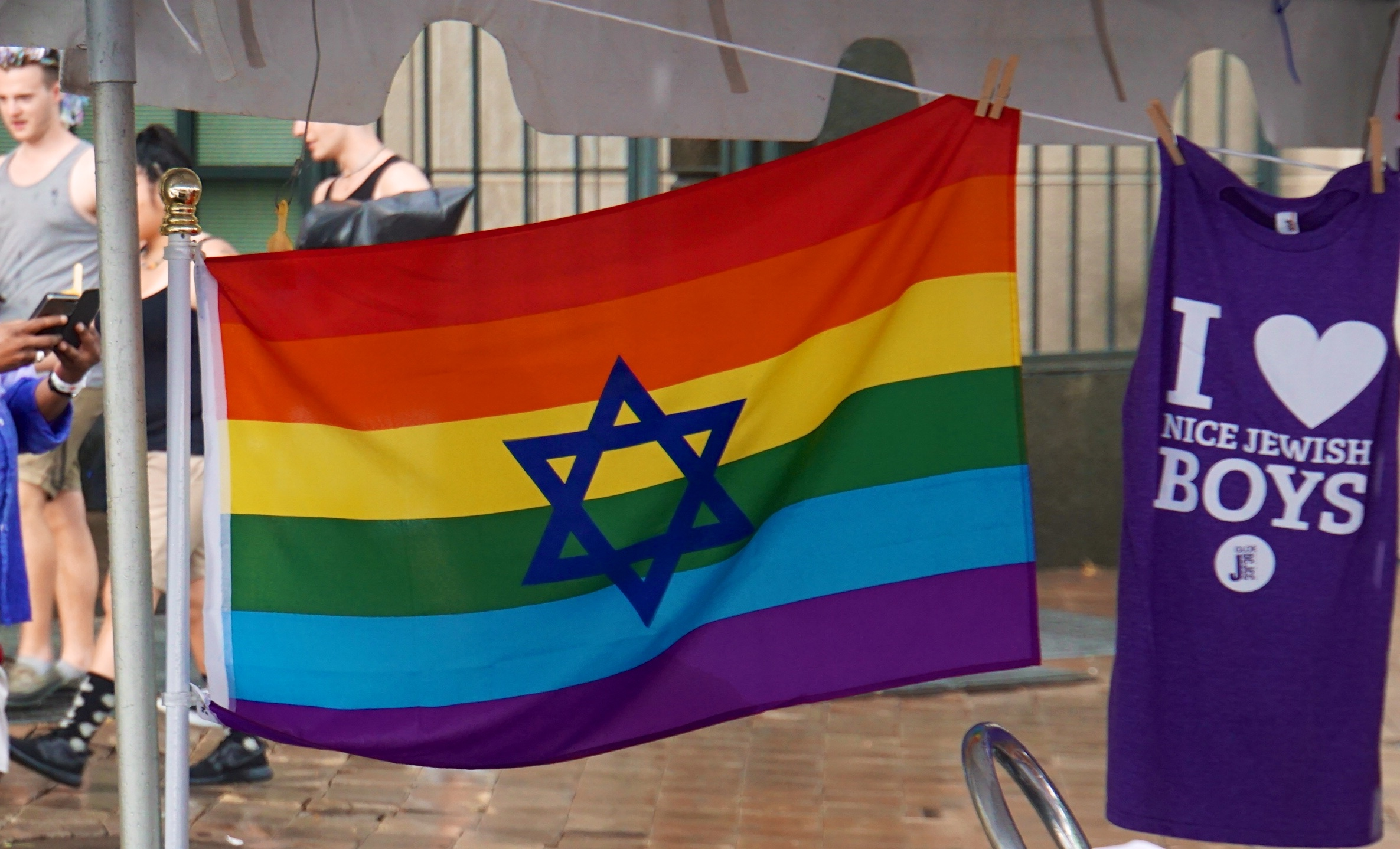 Featuring Carly Rae Jepsen and Wilson Phillips Kaiser Permanente is a Gold Sponsor of Capital Pride and a Platinum Sponsor of Capital TransPride in our nation's capital